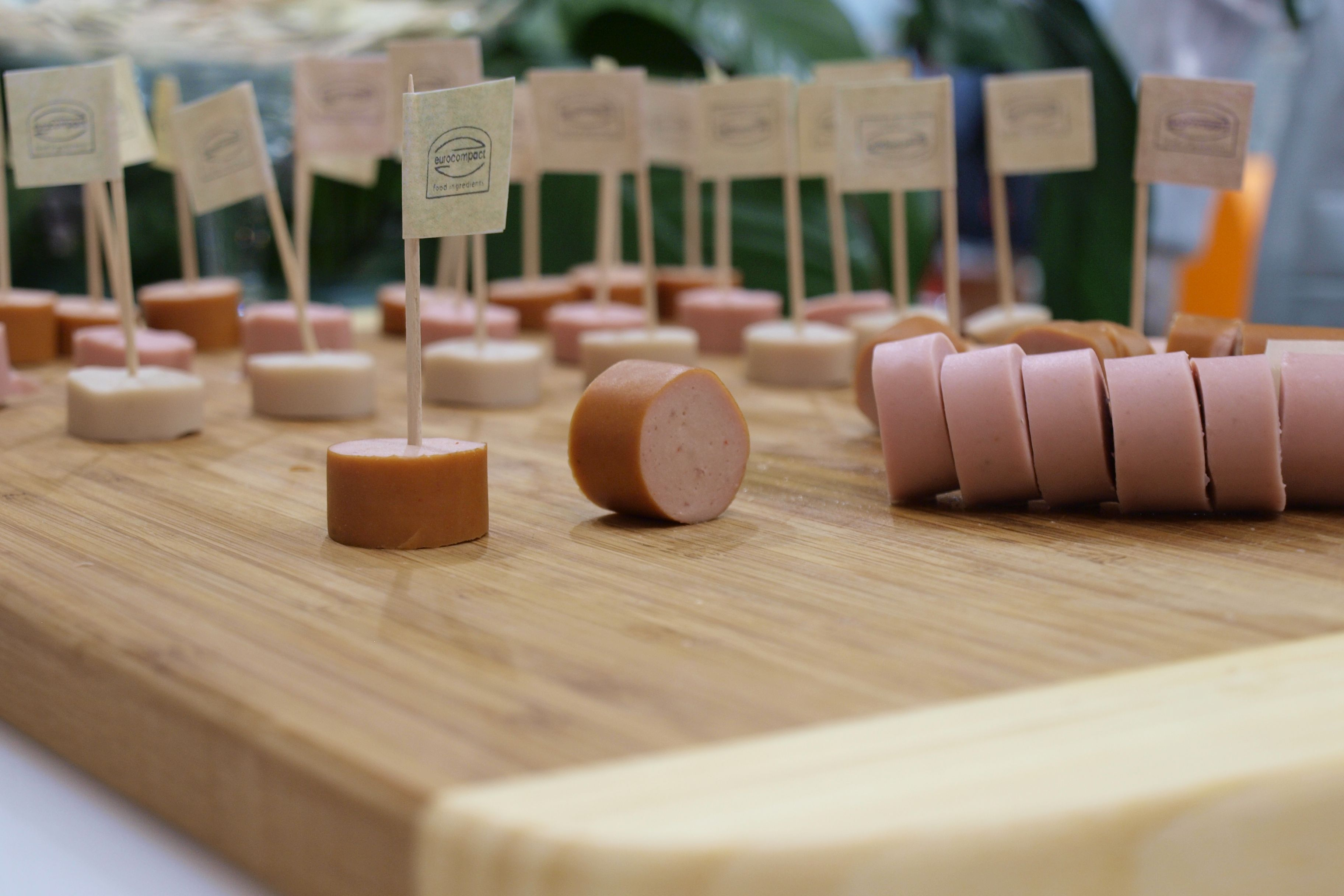 Bulgarian Krenvirsh - a moist sausage of soft, even texture and flavor, often made from meat slurry typically pork, though some varieties substitute chicken or beef. Most types are fully cooked, cured or smoked.